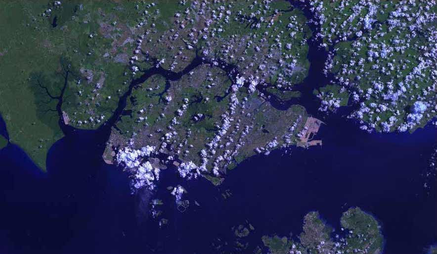 Singapore from Space. The raw satellite imagery shown in these images was obtain from NASA and/or the US Geological Survey. Post-processing and production by